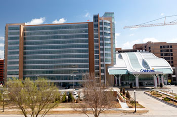 A view of the Atrium at The Children's Hospital at OU Medical Center and the OU Children's Physicians Building. OU Children's Physicians Building at OU Medicine.